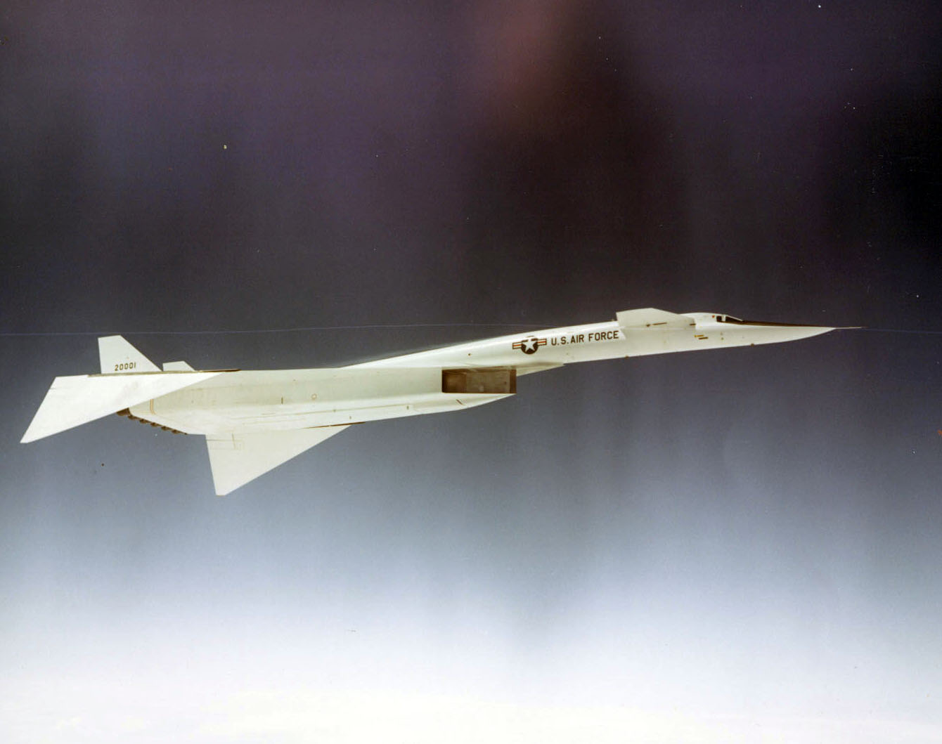 North American XB-70A Valkyrie in flight